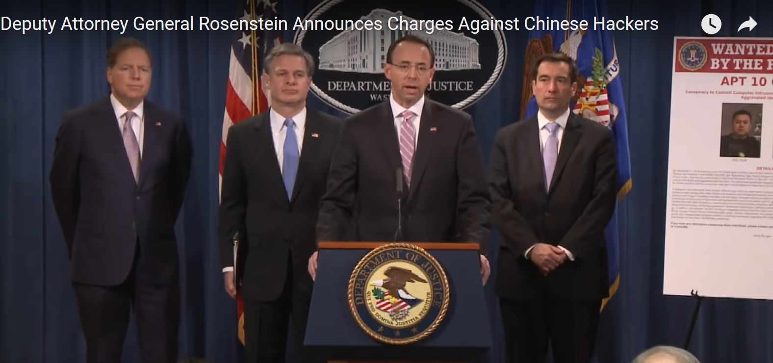 Deputy Attorney General Rod J. Rosenstein, joined by FBI Director Chris Wray, National Security Division Assistant Attorney General John Demers, and Southern District of New York U.S. Attorney Geoffrey Berman, Announces Charges Against Chinese government hackers for economic aggression and espionage Washington, DC ~ Thursday, December 20, 2018 Two Chinese Hackers Associated With the Ministry of State Security Charged with Global Computer Intrusion Campaigns Targeting Intellectual Property and Confidential Business Information Documents and Resources Related to December 20, 2018 Press Conference FBI Director Christopher Wray’s Remarks Regarding Indictment of Chinese Hackers U.S. Charges China Intelligence Officers Over Hacking Companies and Agencies US Indicts Two Chinese Nationals for Massive Hacking Campaign DOJ says Chinese hackers compromised sensitive data